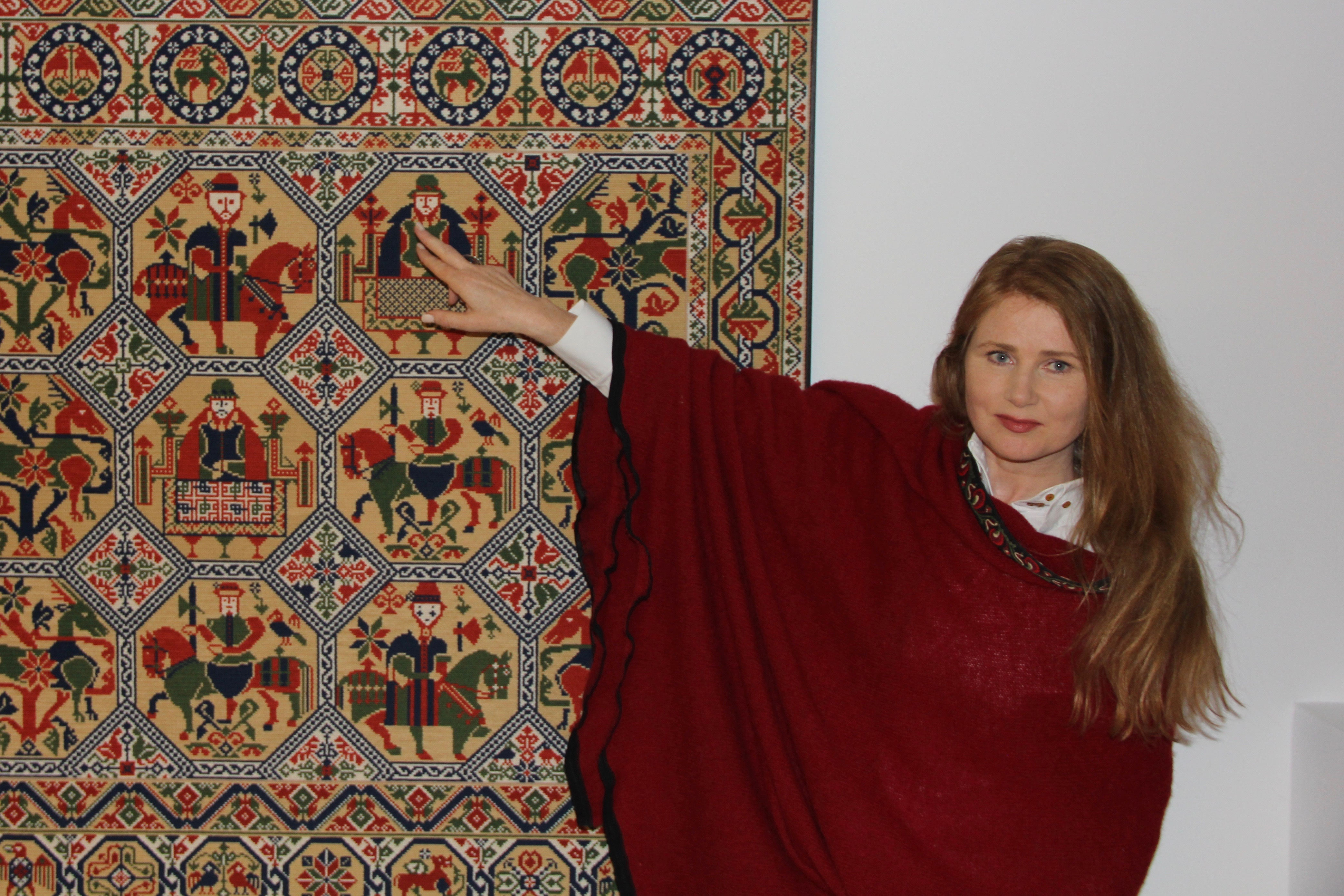 Icelandic artist and author Eva Thengilsdóttir (born 1966)